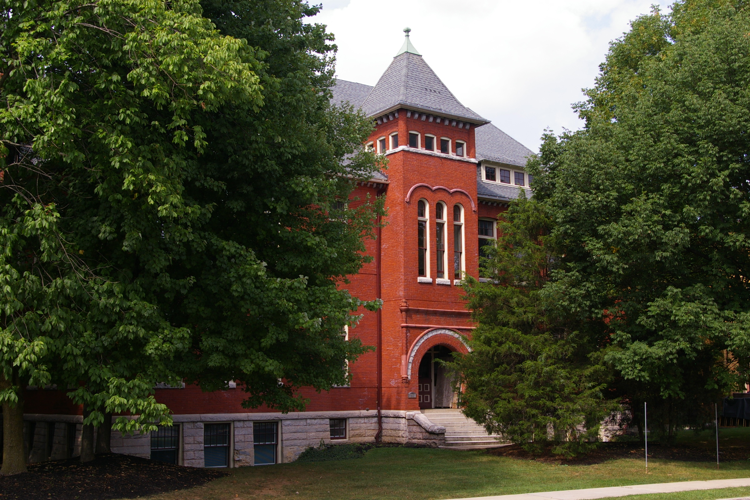 Simpson Street School, Simpson and High Streets, Mechanicsburg, Pennsylvania, USA. South (Simpson Street) side of building. This is the western (older) building. Currently (August 2013) the School House Luxury Apartments. Postal address is 133 Locust Street.